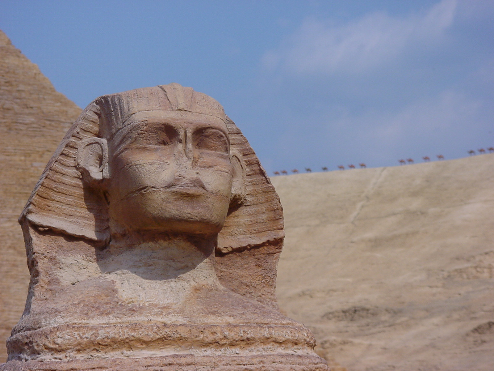 1:25 scale miniature Pyramid of Khafre and the Great Sphinx at Tobu World Square (Japan)